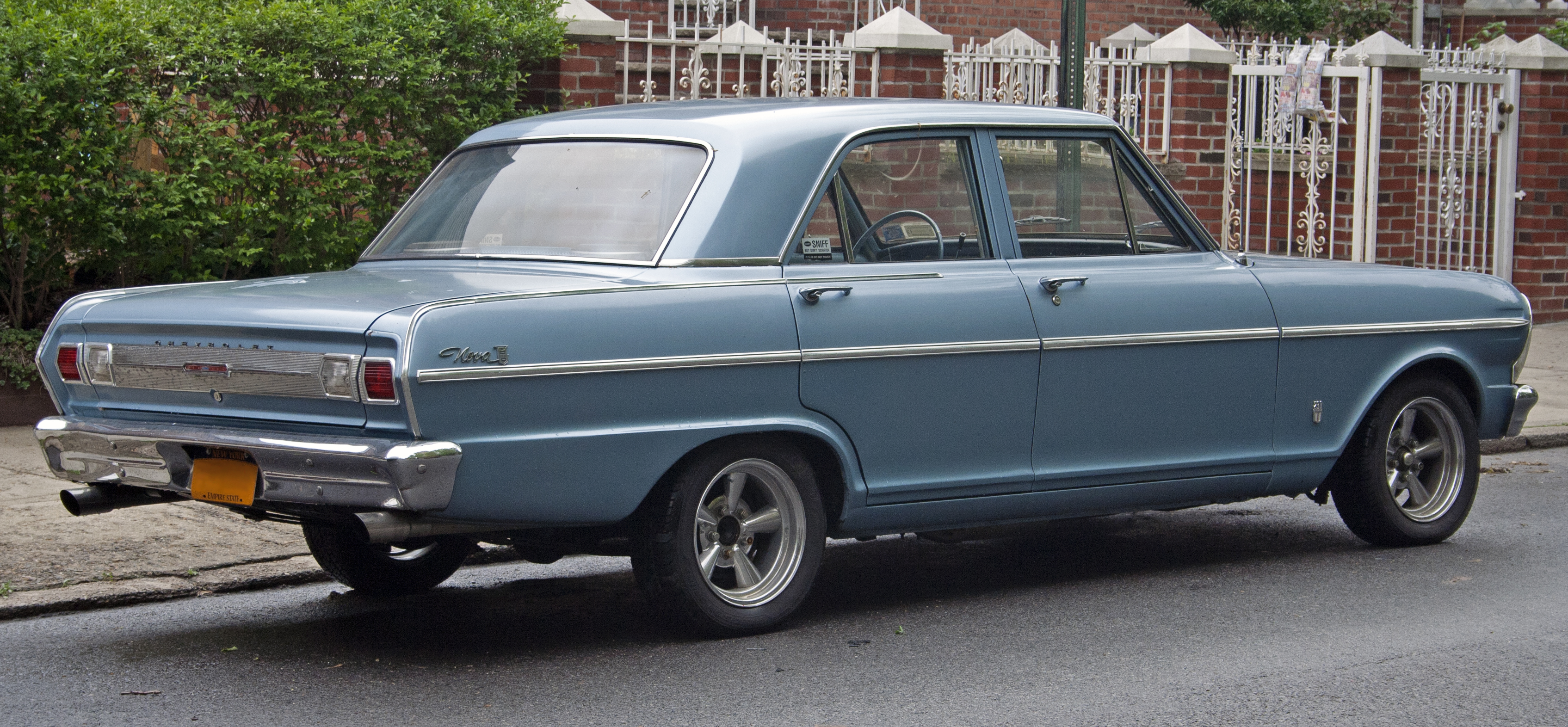 1965 Chevrolet Chevy II Nova four-door sedan.